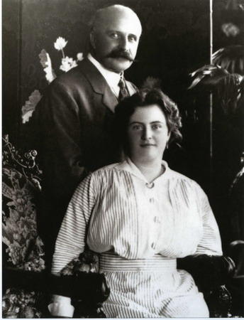 James Stewart Lockhart and his daughter